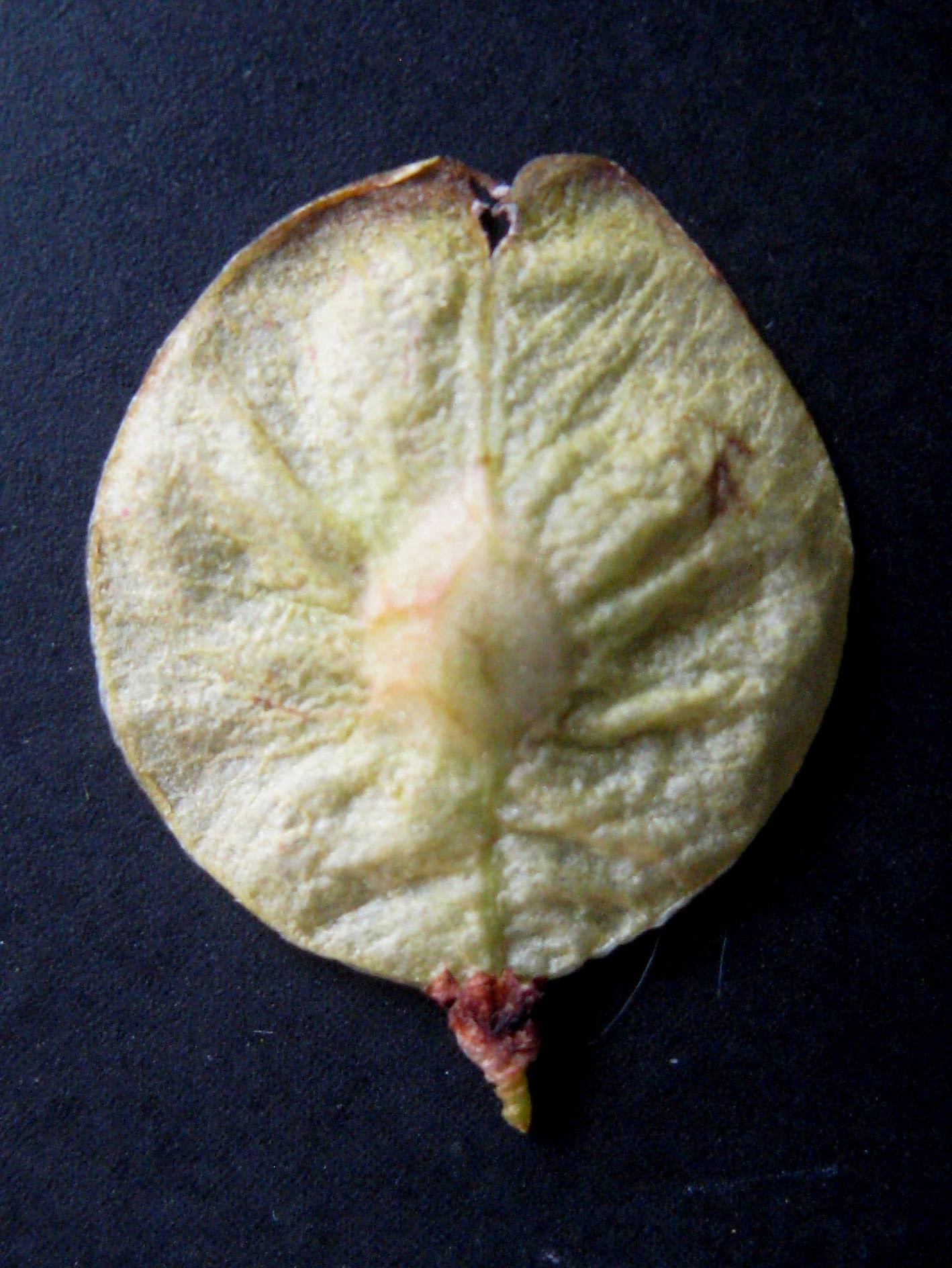 Photo of a samara of Ulmus laciniata collected from tree growing at Great Fontley Farm, England.